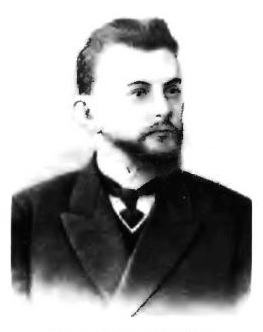 Black and white photo of botanist Boris Alexjewitsch Fedtschenko